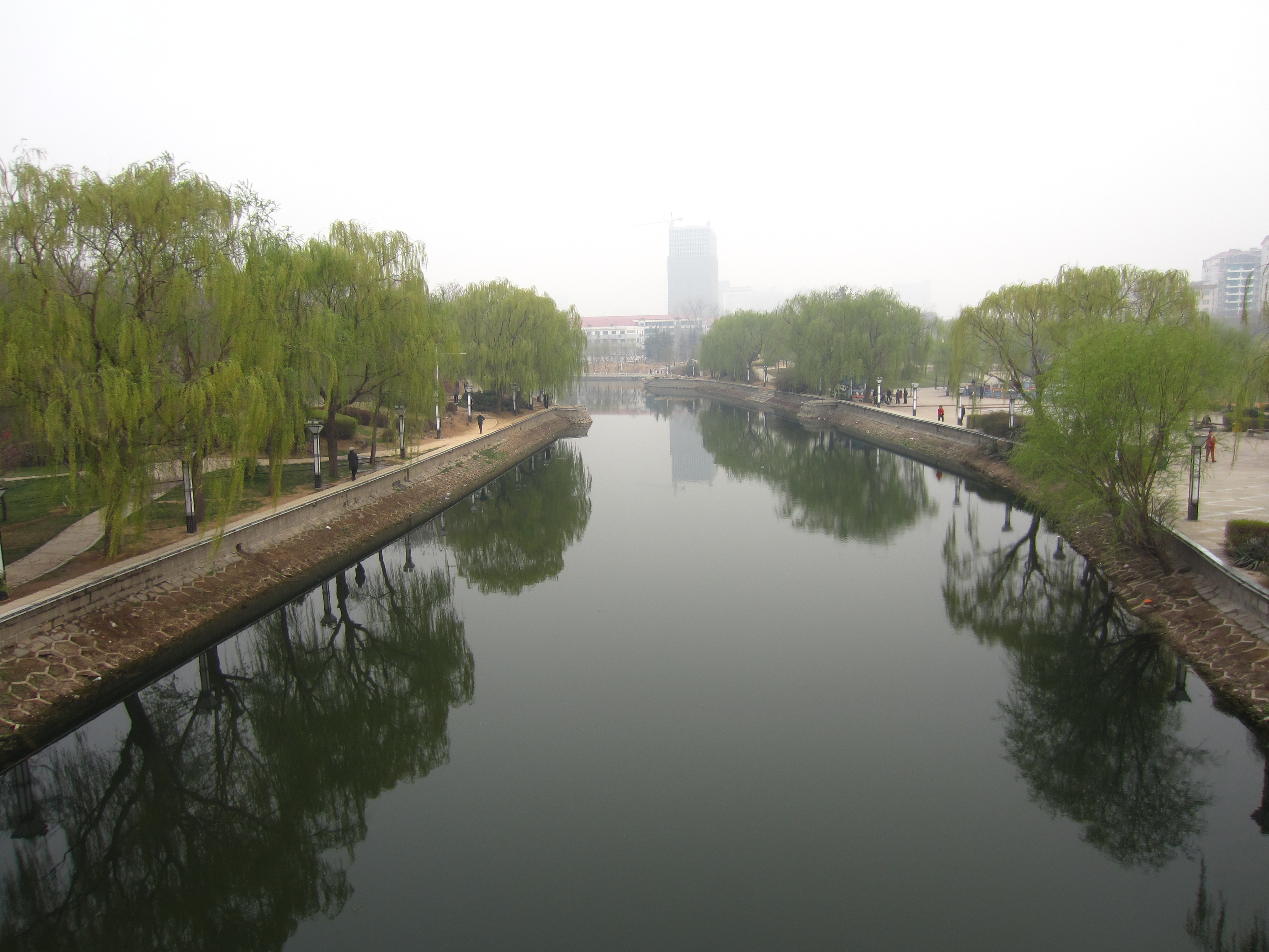 In the spring of Fuyang Park.